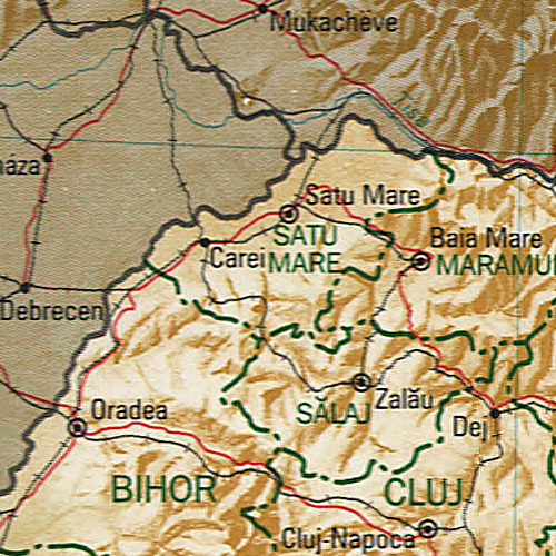 Map of Satu Mare County, Romania.